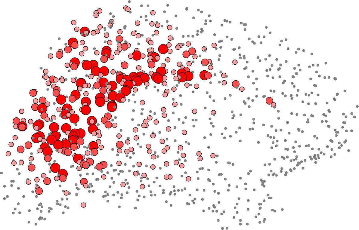 Structural and functional brain imaging analyses, combined with computational analyses, that reveal highly connected, centrally located regions of the human cortex that form a “structural core” of the brain. (As explained in the same source).